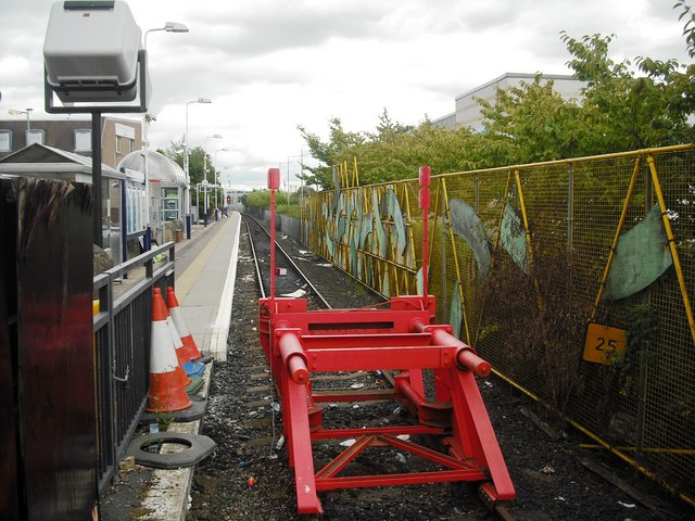 End of the lineIt will also be the end of the line for this station when it is replaced by the new one which will be about a half mile back along the line.